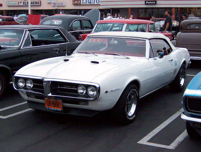 1967 Pontiac Firebird convertible. Photo by User:Morven at the weekly Donut Derelicts car show in Huntington Beach, California.